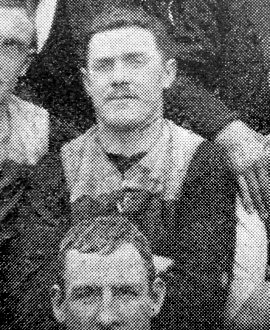 Photograph of Bob Bird in 1898.